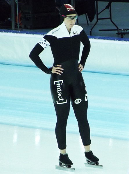 2013 World Single Distance Speed Skating Championships